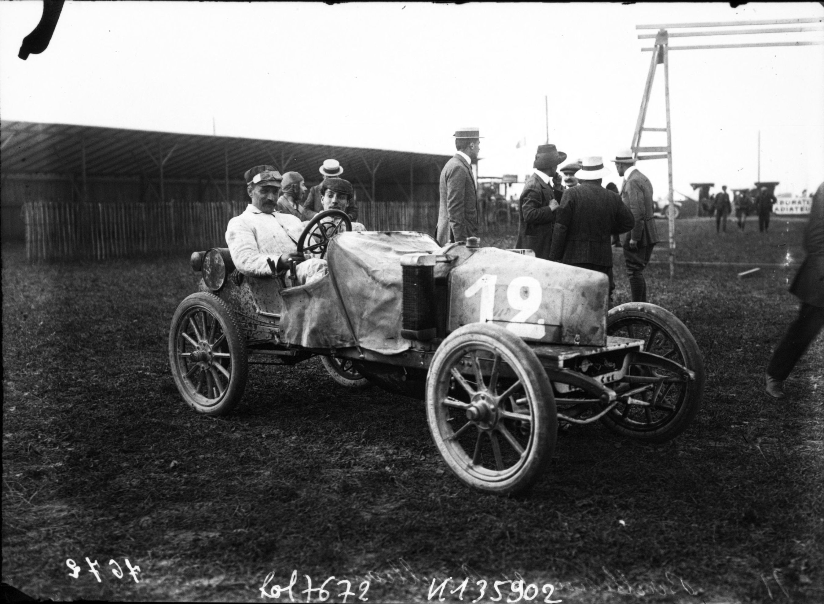 A. Bailleau in his Bailleau at the 1908 Grand Prix des Voiturettes at Dieppe.